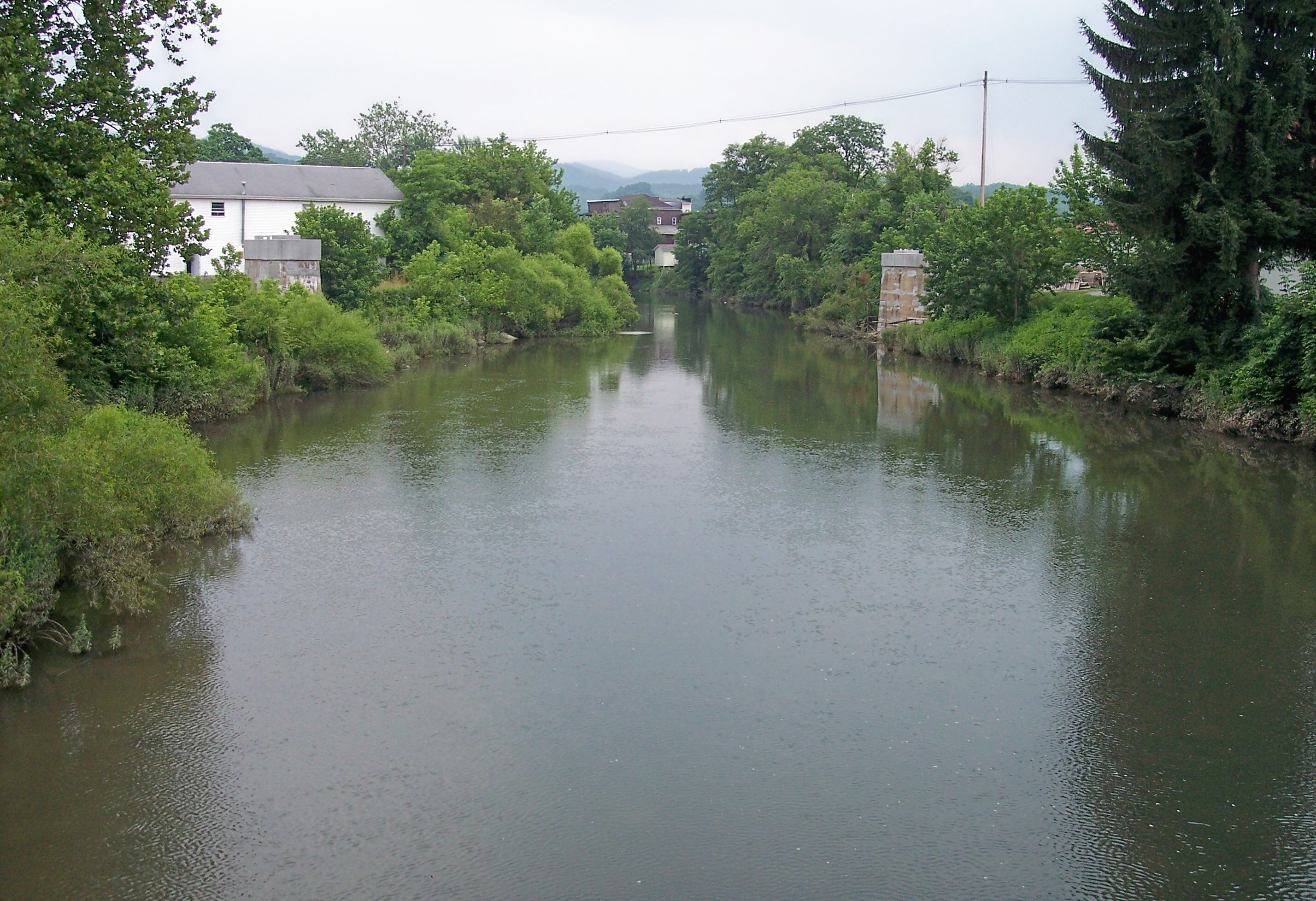 The Tygart Valley River as viewed from a footbridge in Elkins, West Virginia